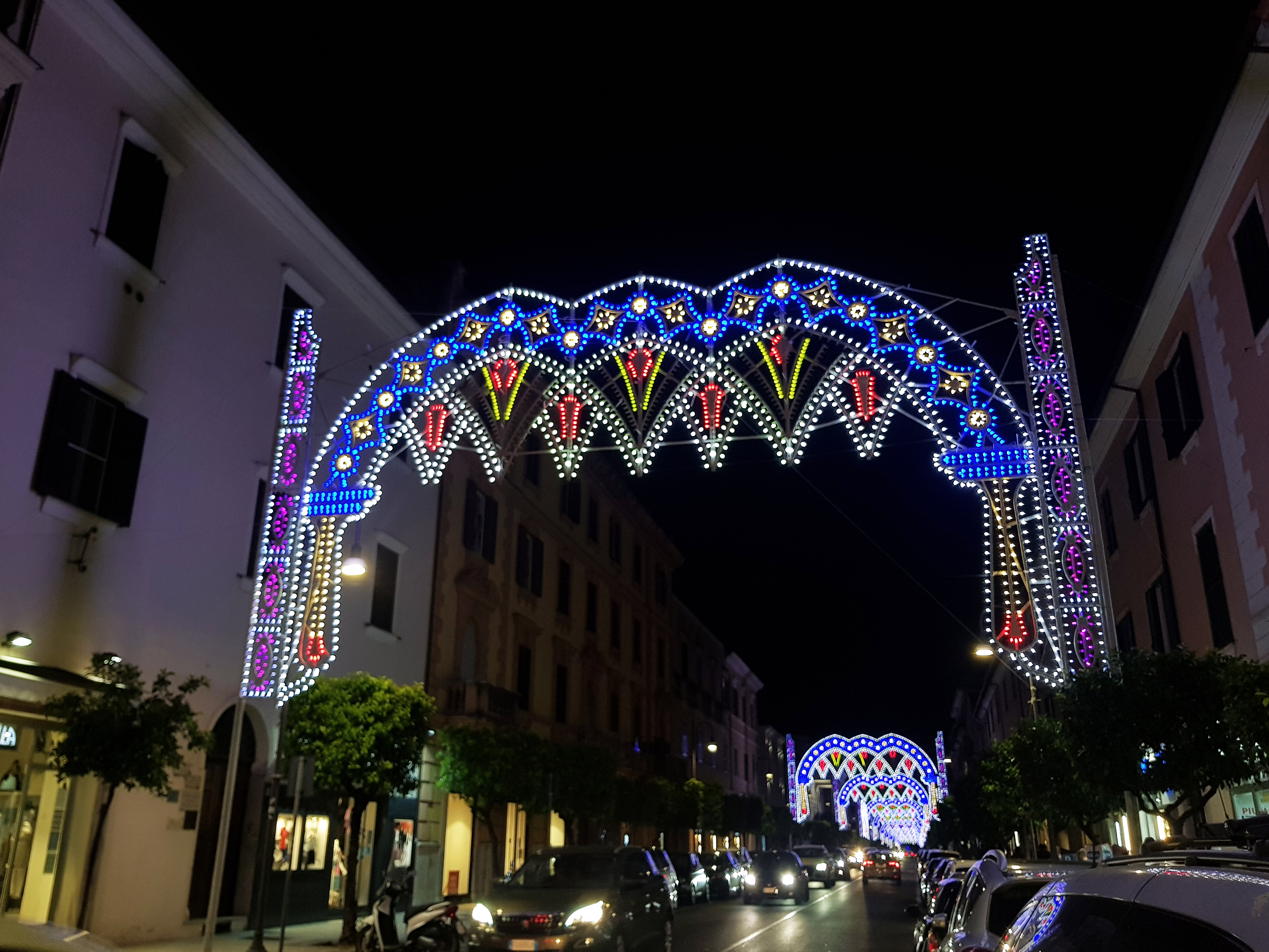 Luminaries hanging above the streets (Via Roma) of the city of Terracina, (Province of Latina, region Lazio) in Italy. The lights were hanged for the religious holyday of Madonna del Carmelo. The day was celebrated even in 2020 despite of the social distancing measure taken against covid-19 during the pandemic. Picture taken on the 18th of July in 2020.